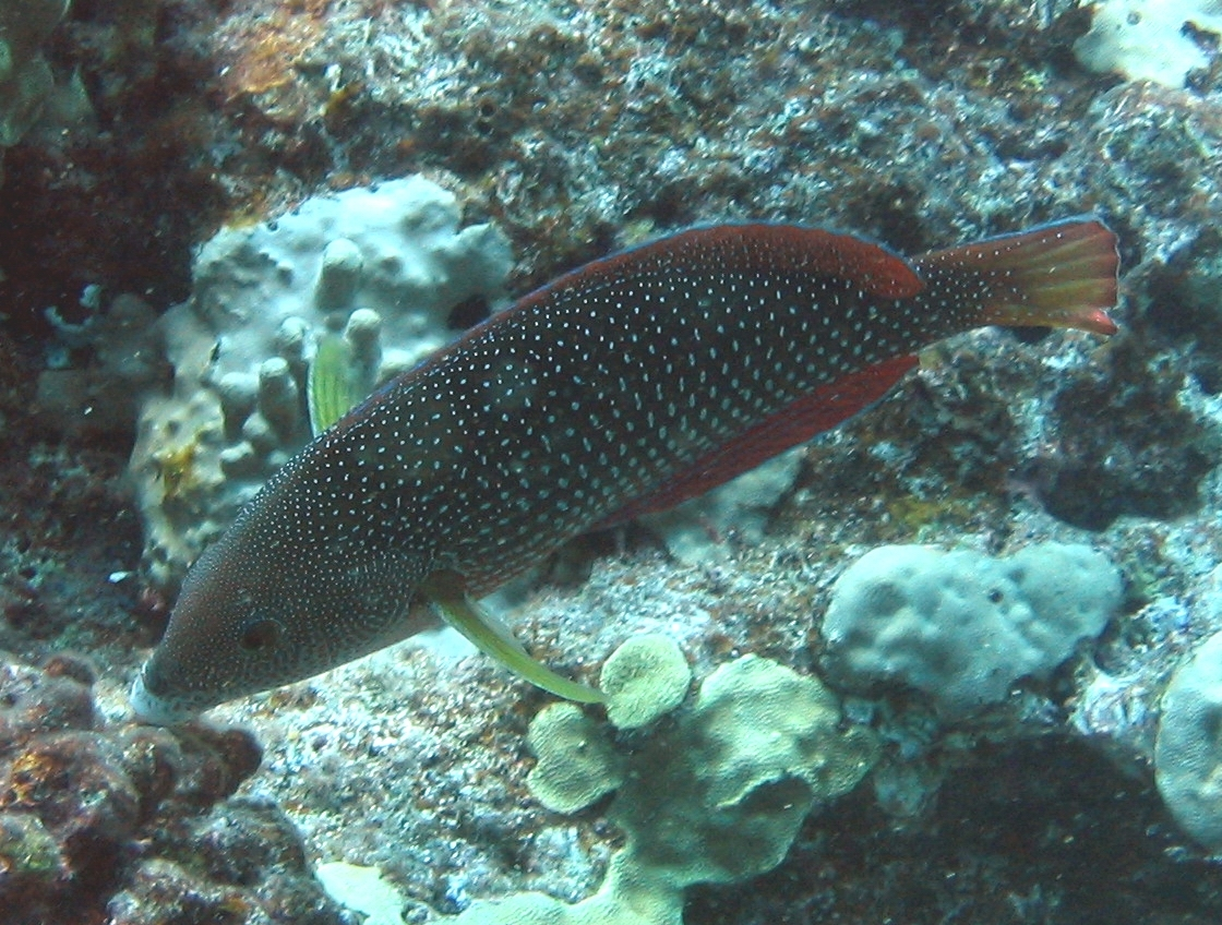 Pearl wrasse (Anampses cuvier Syn. Anampses cuvieri). Opule in Hawaiian language. Image ID: reef0622, NOAA's Coral Kingdom Collection Location: Northwest Hawaiian Islands